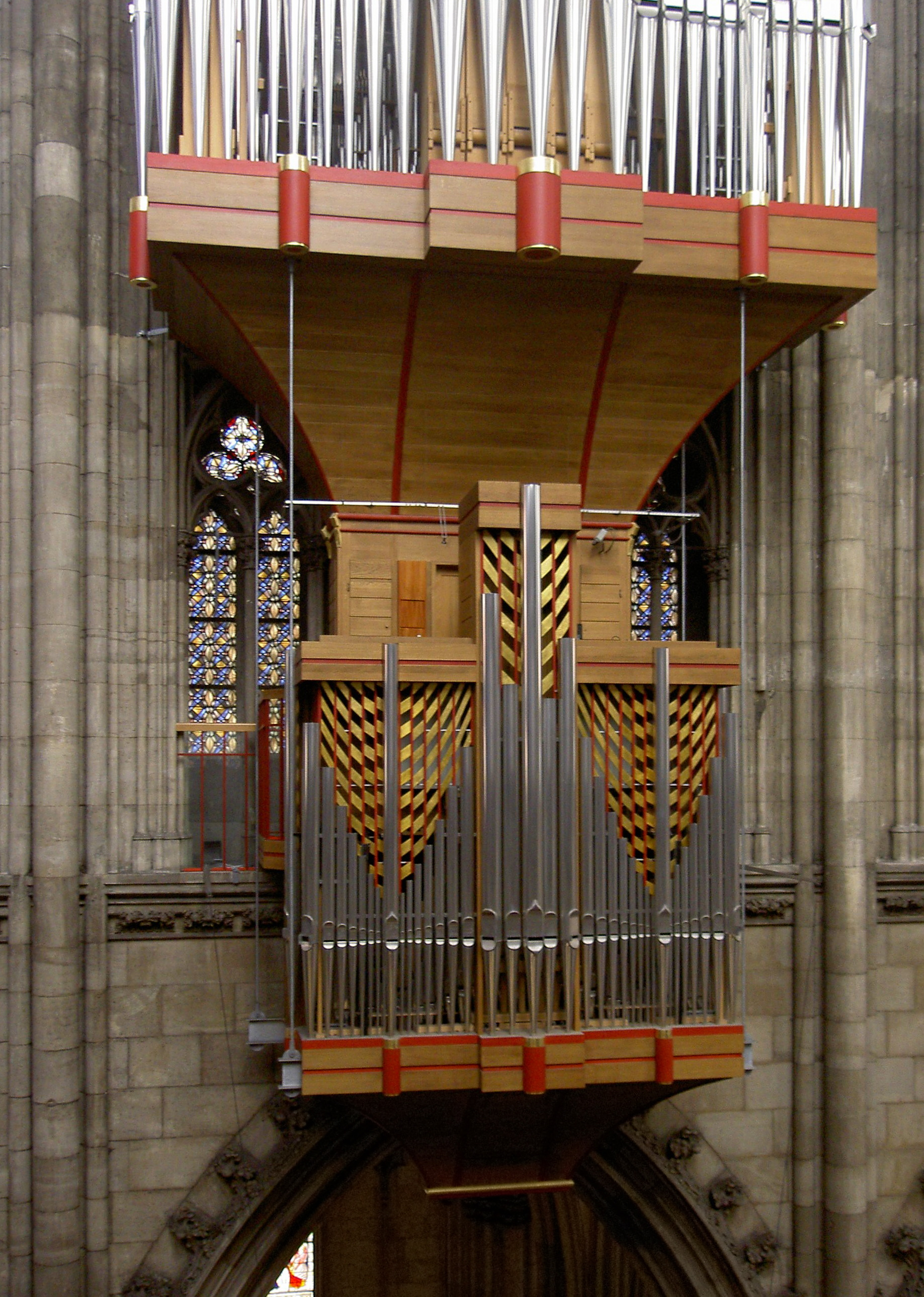 Die neue Orgel des Kölner Doms / the new organ of Cologne Cathedral